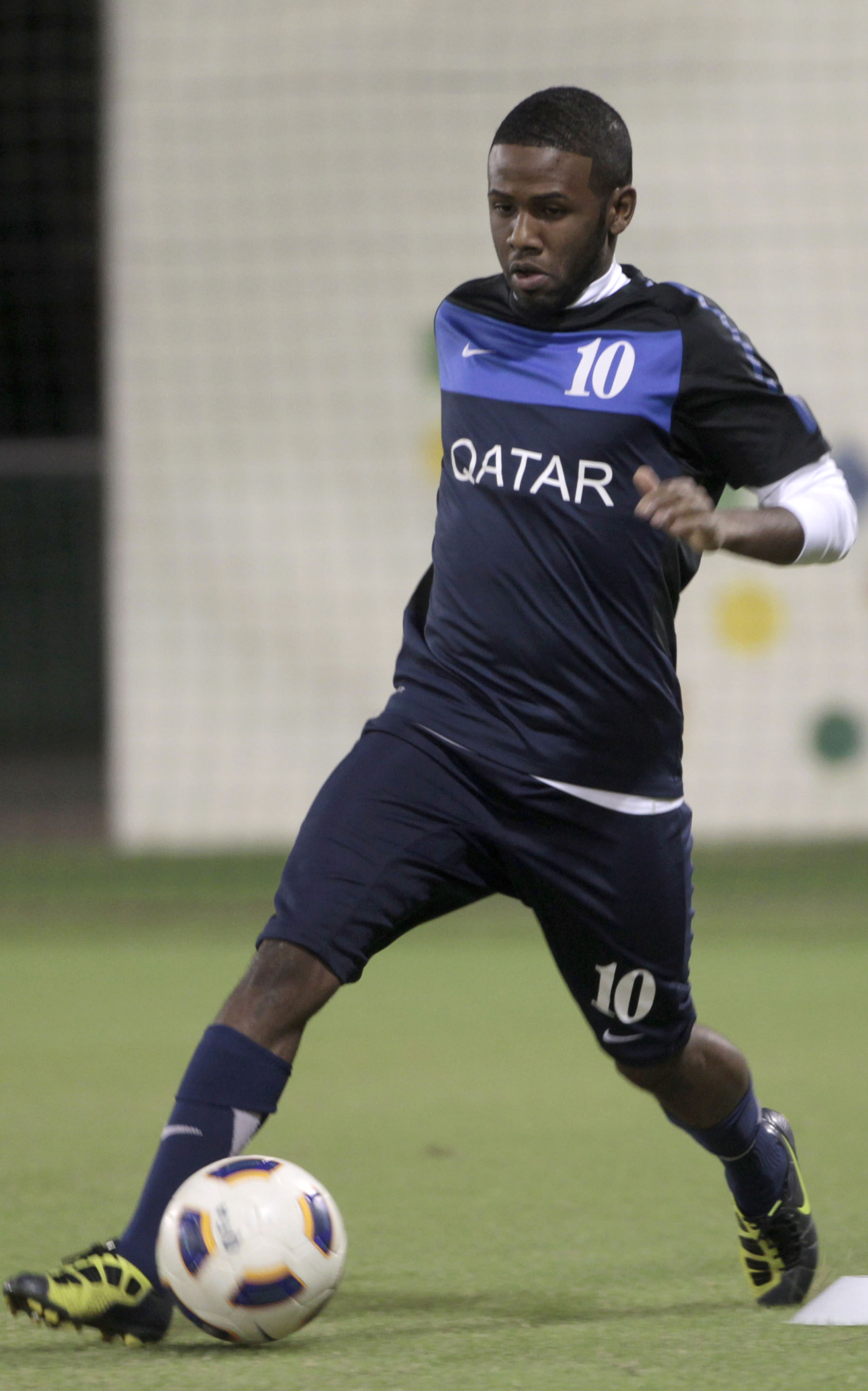 Qatar international Khalfan Ibrahim Khalfan during a training session in Doha.